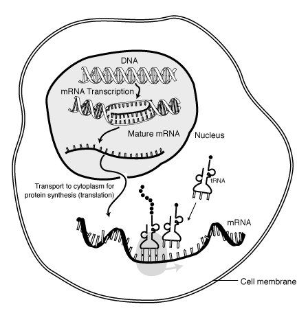 מולקולת רנ"א שליח לקוח מTalking Glossary of Genetics All of the illustrations in the Talking Glossary of Genetics are freely available and may be used without special permission.